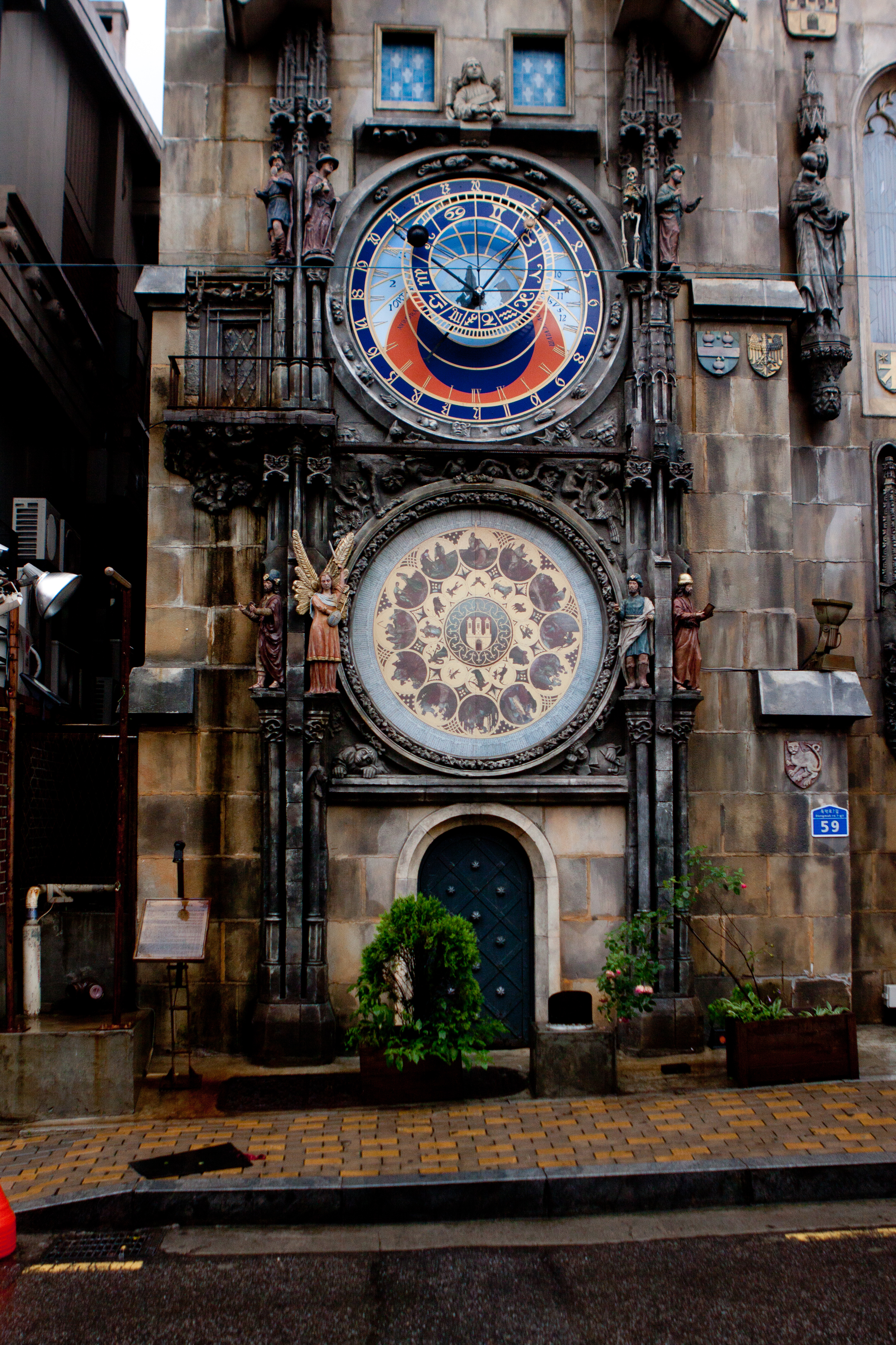 Replica of Prague Astronomical Clock, in Hongdae, Seoul, South Korea - restaurant Praha Castle